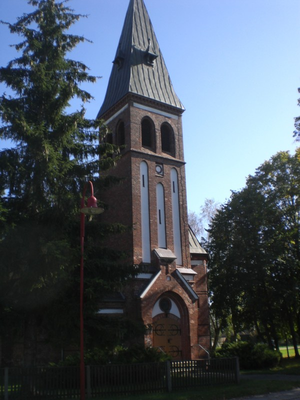 Church in Hintersee, Vorpommern